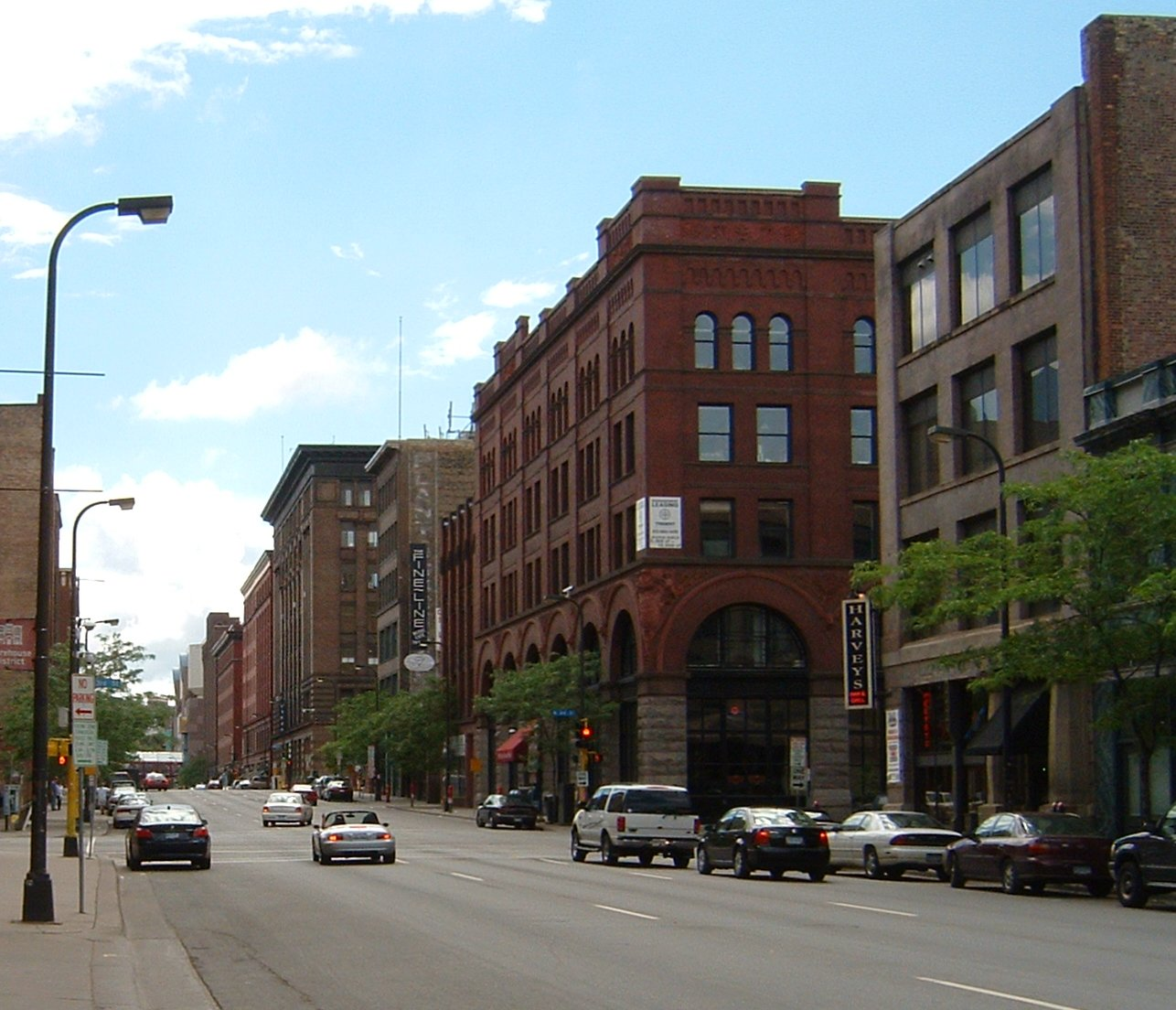 View of the Warehouse District in Minneapolis, Minnesota along 1st Avenue.